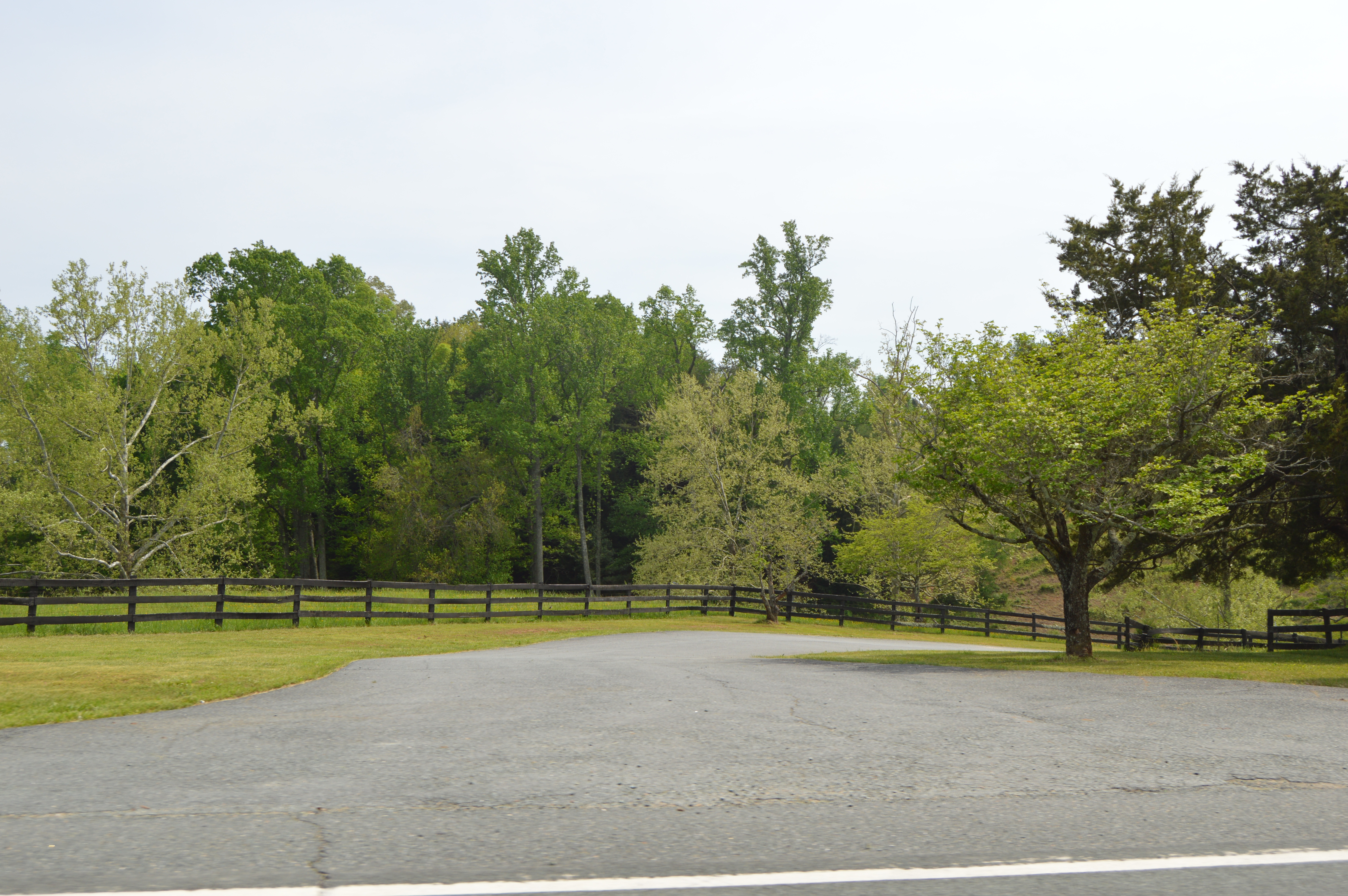 Driveway to the Cobham Park estate, located on State Route 22 east of Charlottesville in Albemarle County, Virginia, United States. The estate is listed on the National Register of Historic Places.